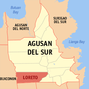 Map of the Agusan del Sur showing the location of Loreto